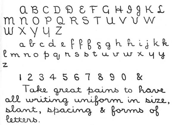 Illustration in A Library Primer